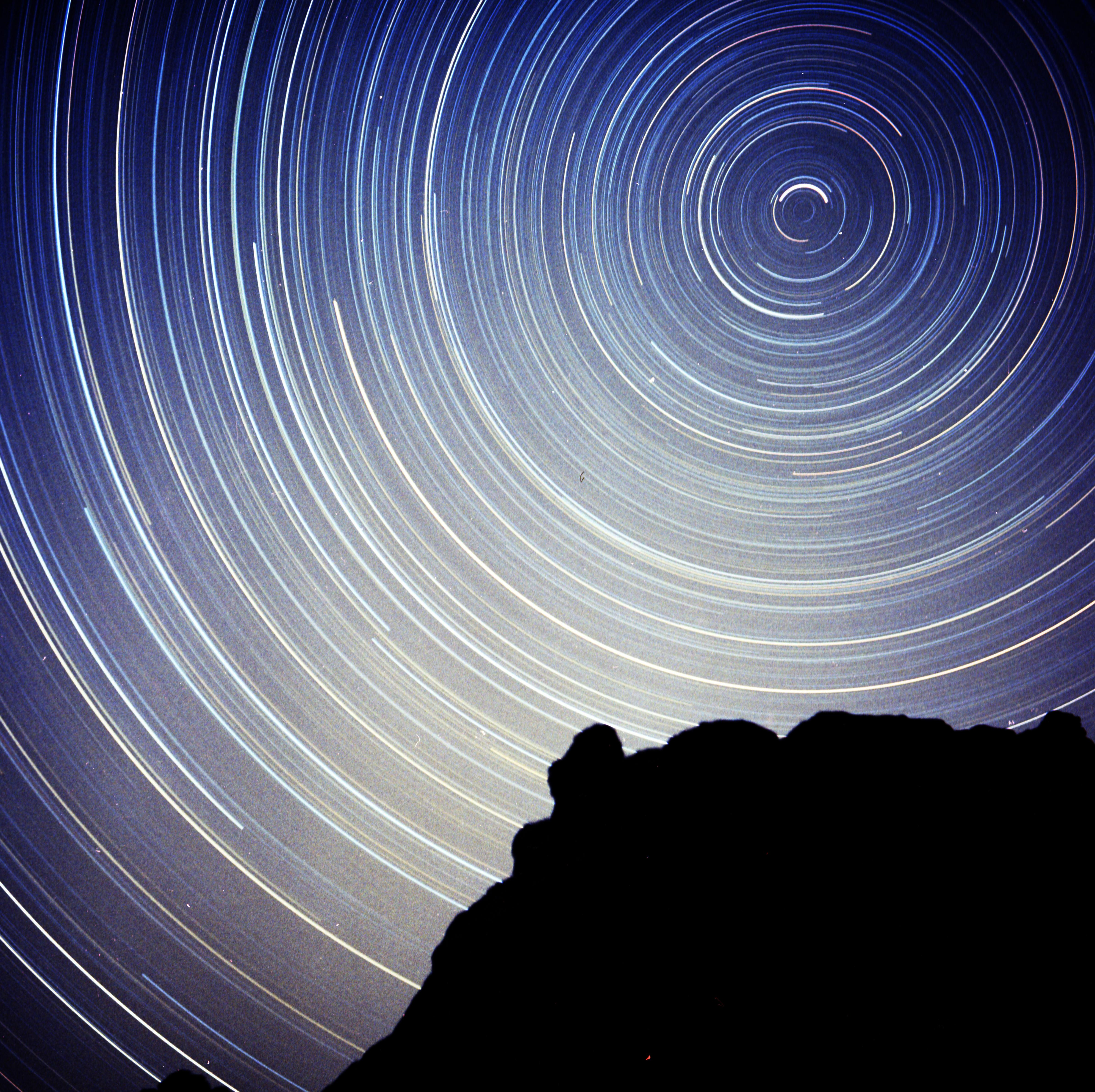 A very long exposure (7+ hours) of the night sky looking at Polaris, showing star trails. Taken in Northern Arizona.